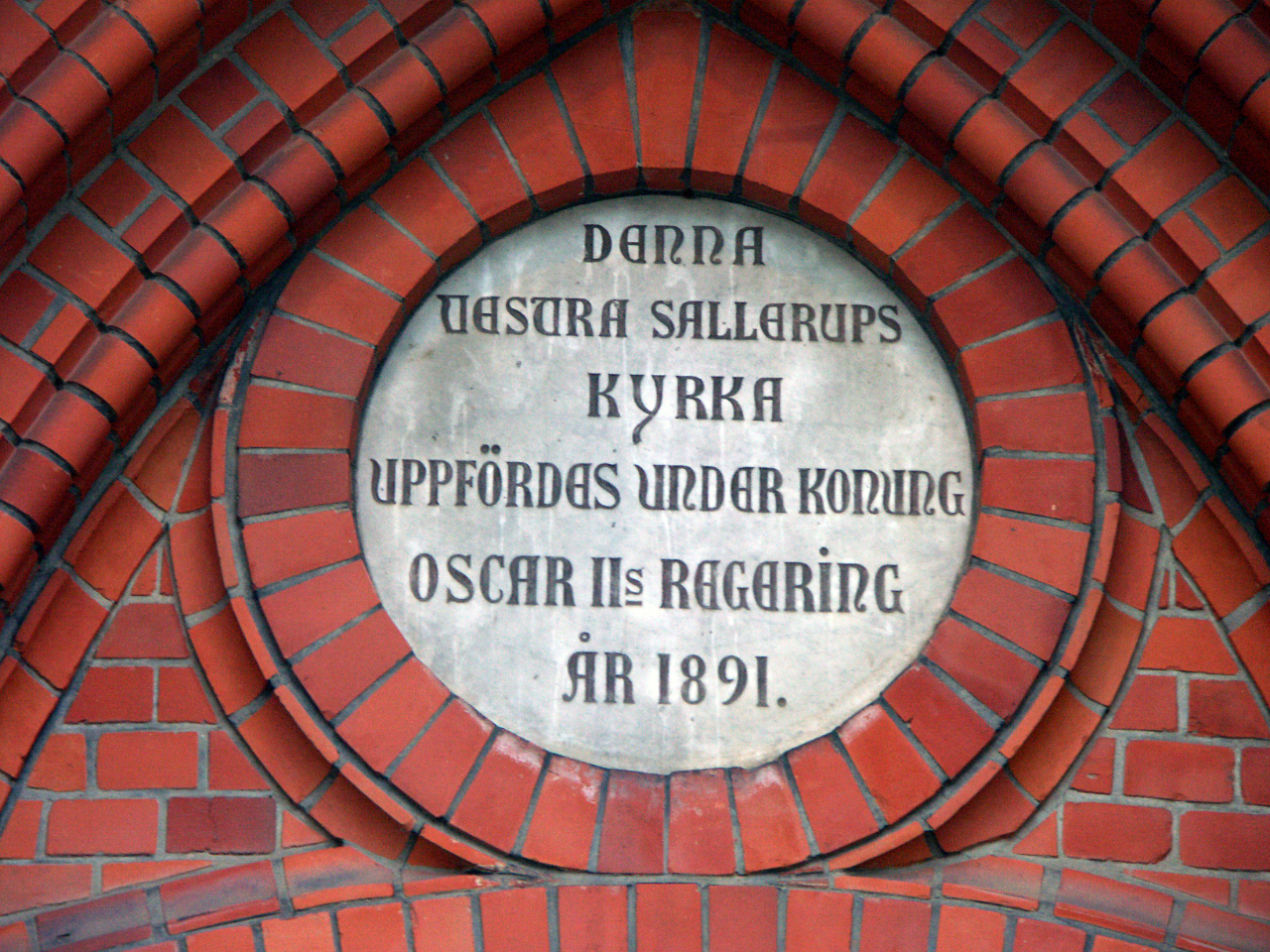 Eslövs kyrka (church) in Eslöv, Church of Sweden Diocese of Lund, Sweden. The church was built by the name Västra Sallerups kyrka, but later changed names, so Västra Sallerups kyrka now refers only to the older church by that name, located in the same town. The text on this picture translates: "This Vestra Sallerups kyrka was erected during the reign of king Oscar II in the year 1891"